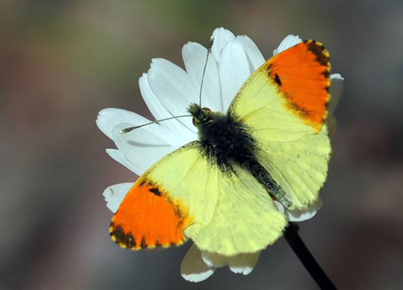 A male Eastern Orange Tip (Anthocharis damone). Palandöken Mt., Erzurum - Turkey.